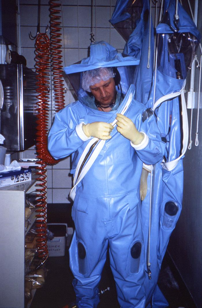 This photograph depicted a Centers for Disease Control (CDC) laboratorian, as he was putting on an older-model positive-pressure suit before entering one of the CDC’s earlier maximum containment, or Biosafety Laboratories (BSL), sometimes referred to as a “suit lab”. Scientists working within a BSL must wear protective garments that are air-tight, thereby, protecting the technician from exposure to highly-infectious pathogenic organisms. Fresh, filtered air is supplied to the interior of the suit via overhead tubing. The positive-pressurization offers some added protection to exposure through a defect in the suit, for if the suit’s patency is compromised, air would be forced out of the suit instead of being sucked into the suit.